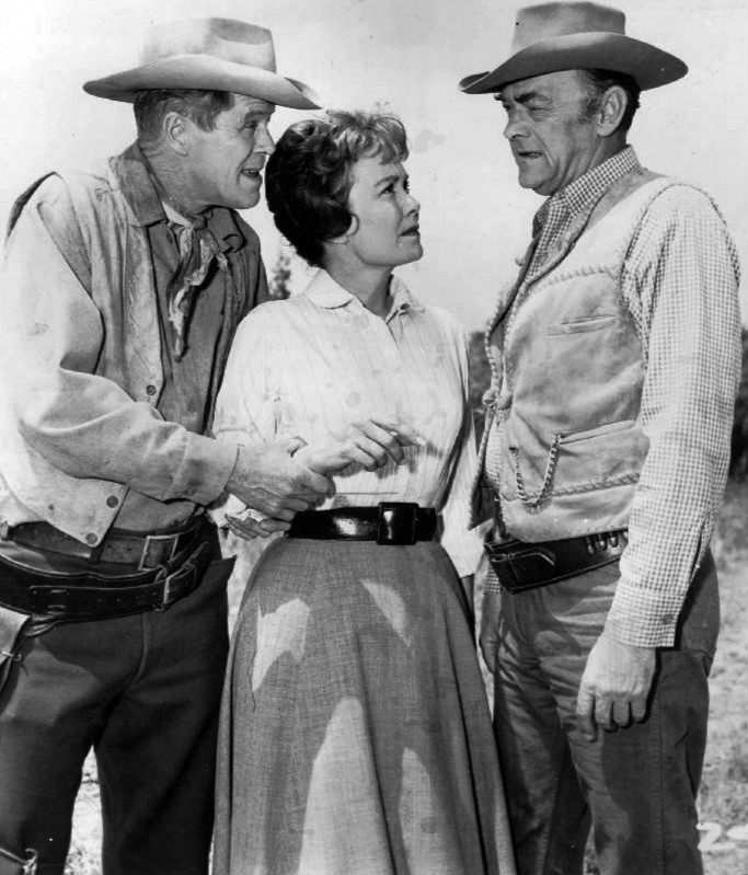 Photo of Dan Duryea, Jane Wyman ad John McIntire from the television program Wagon Train.